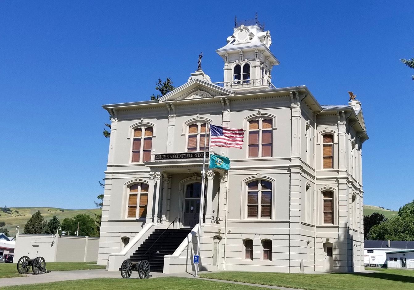 Columbia County Courthouse Washington, photo by John Stanton 28 Jun 2017